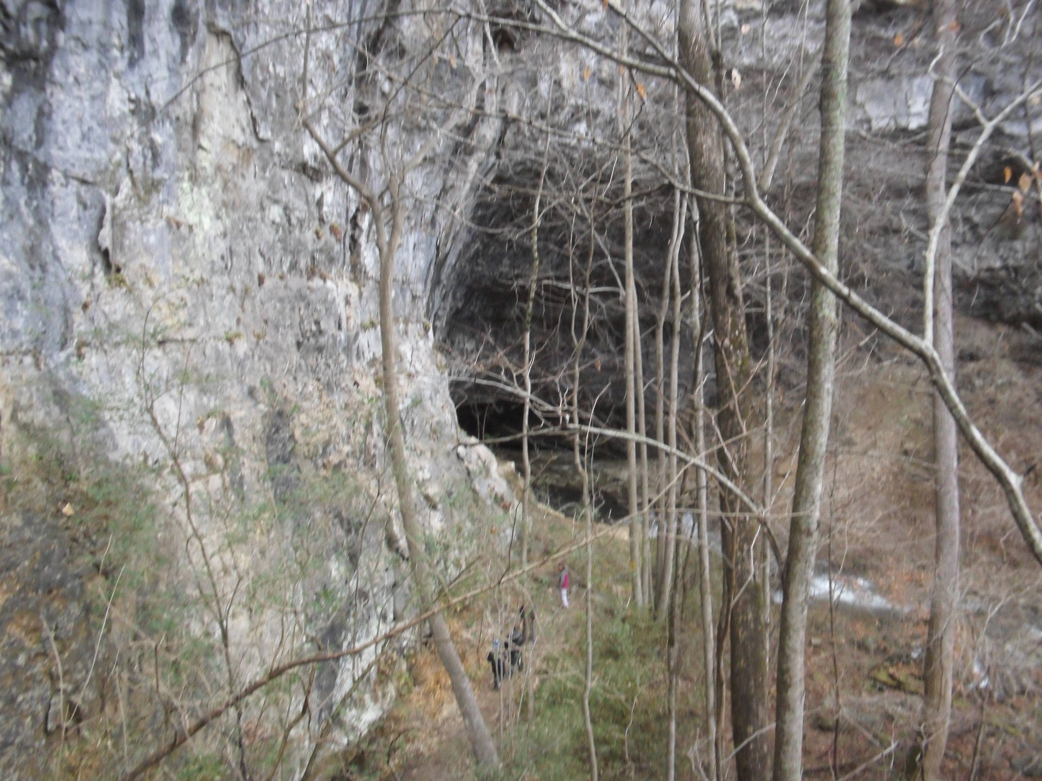 Lost Cove Cave, Tennessee, from the cliff side